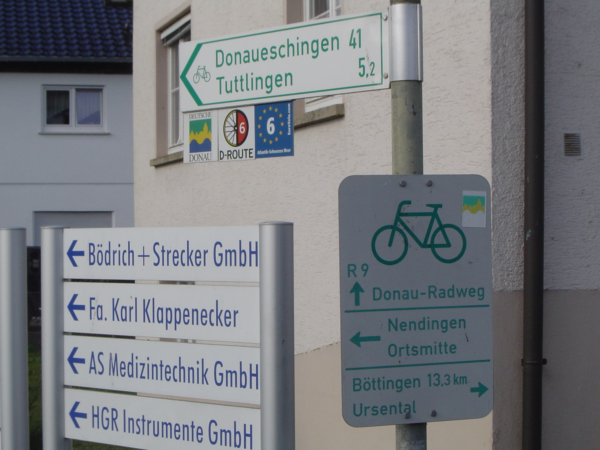 Sign in Nendingen.